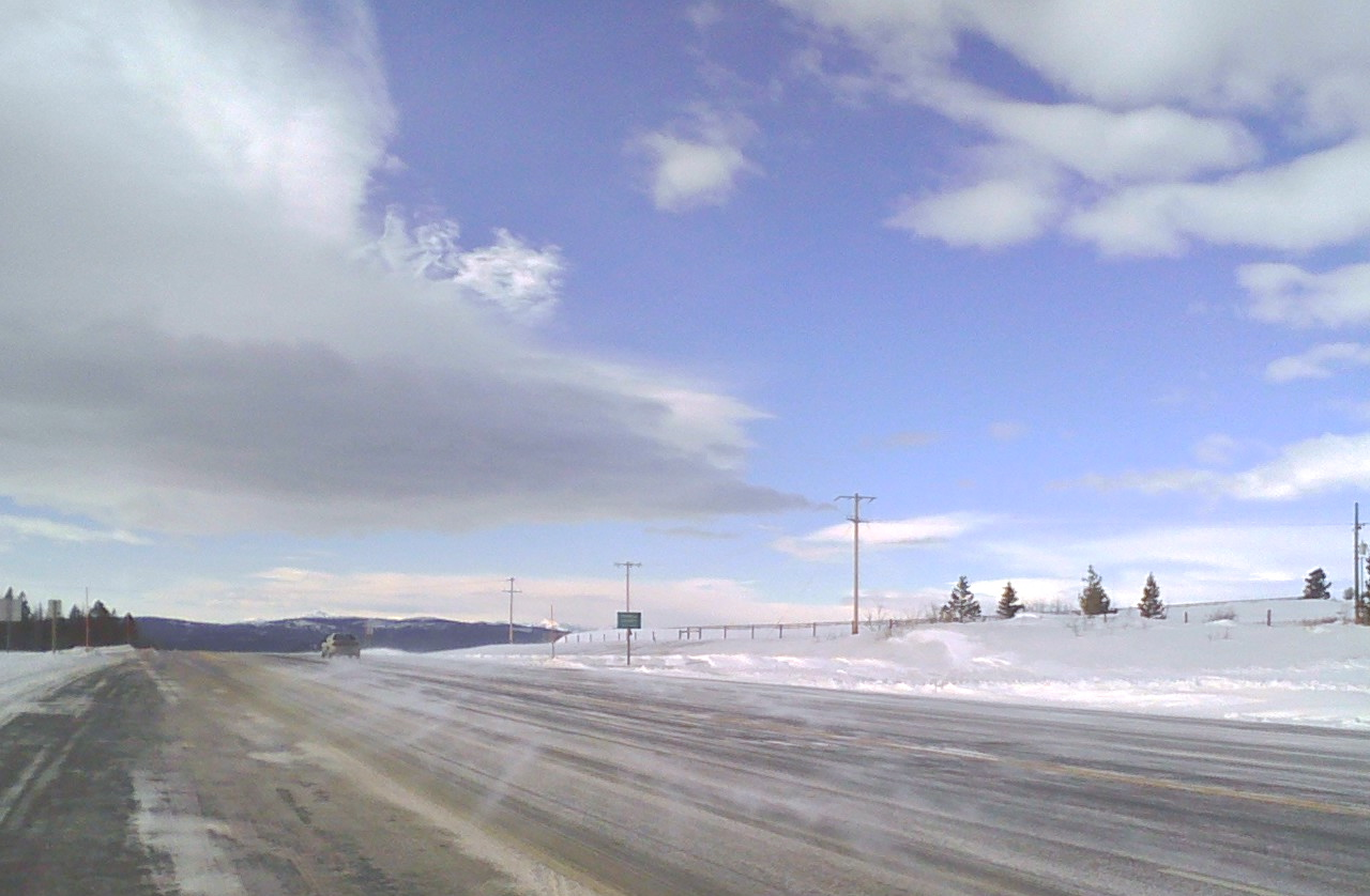 MacDonald Pass, Lewis and Clark County/Powell County, Montana; U.S. Highway 12, Helena National Forest